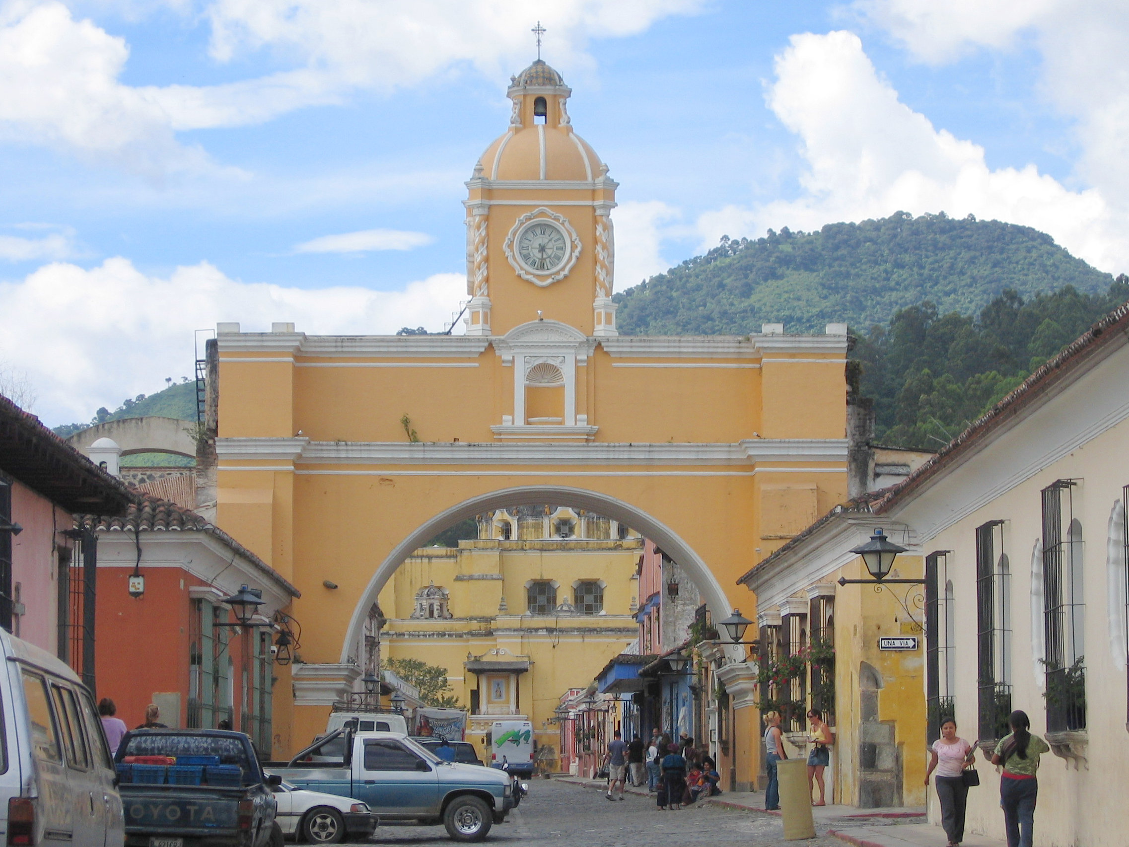 Antigua (Guatemala), Santa Catalina arch, August 2006, looking towards La Merced Church.